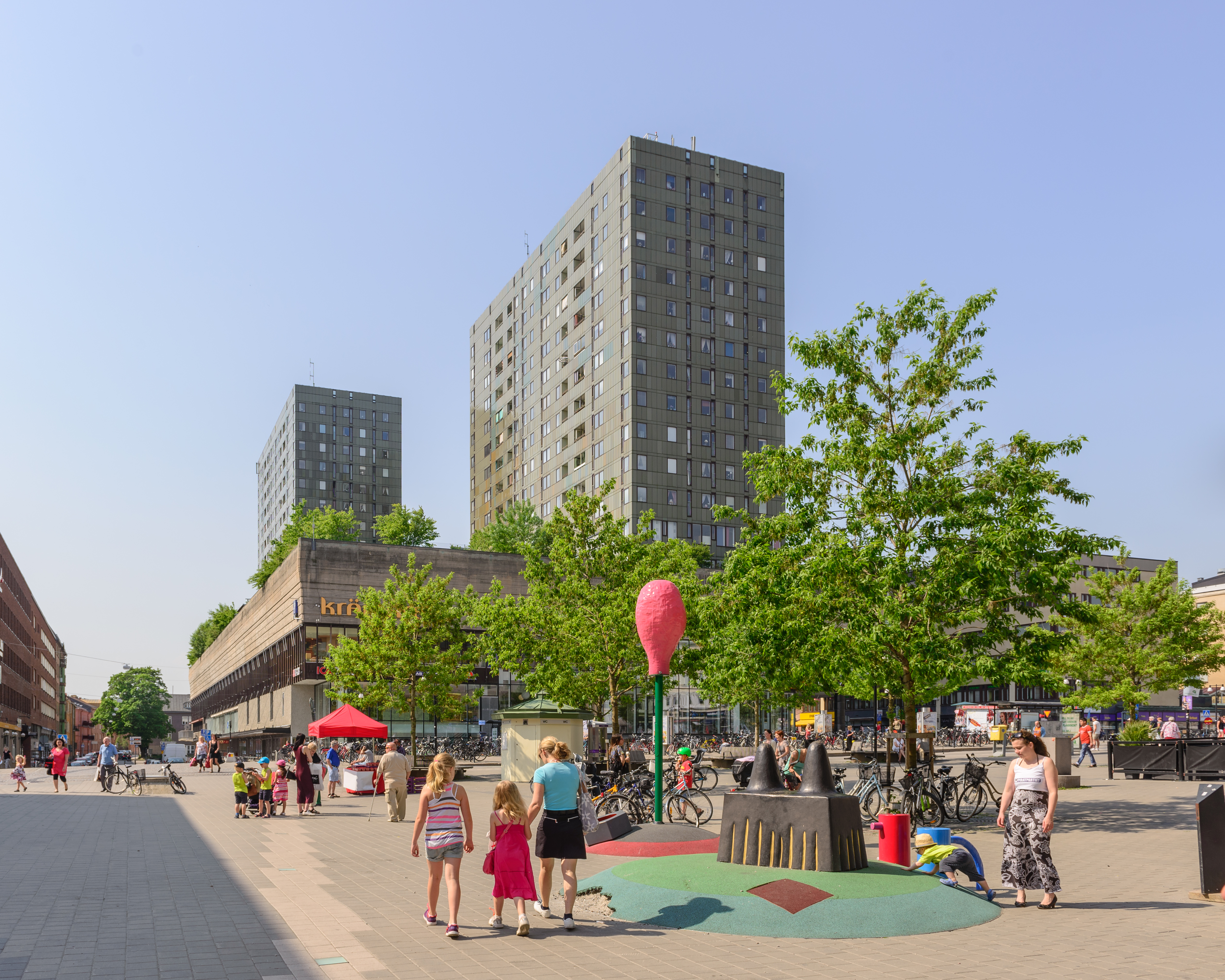 Våghustorget, a square in central Örebro. In the background, Krämaren (built 1955-63).